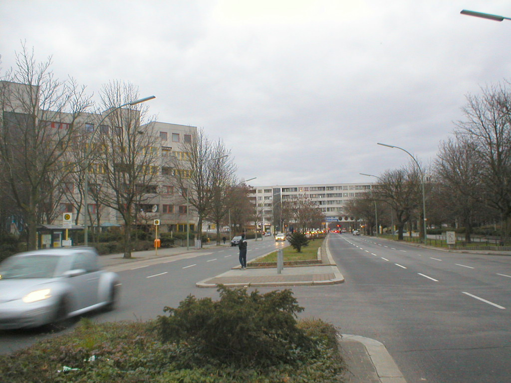 The Sonnenallee ("sun avenue") at Berlin, southern part (view direction west)